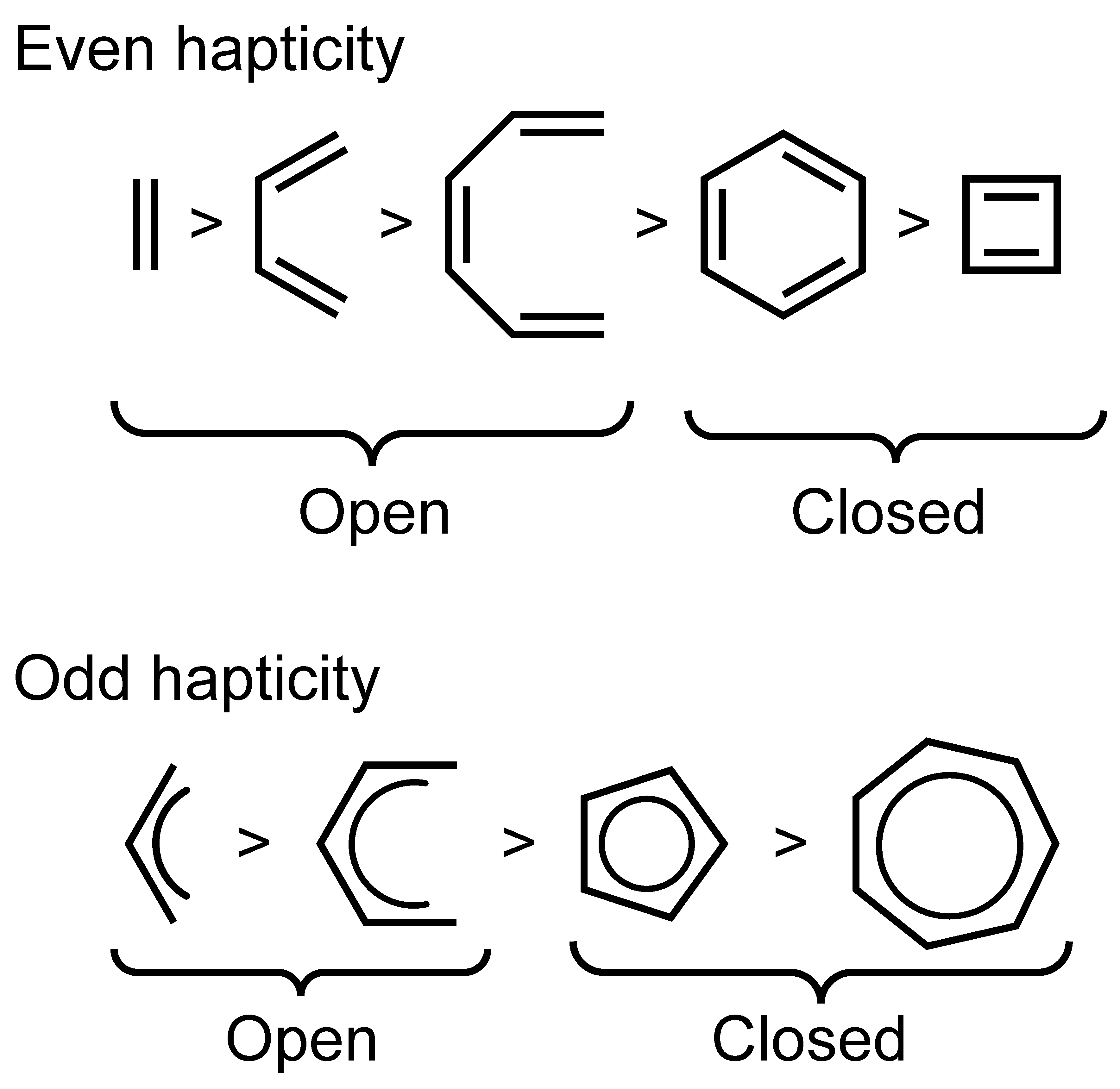 Image demonstrating the trend in hapticity for Green–Davies–Mingos rules.